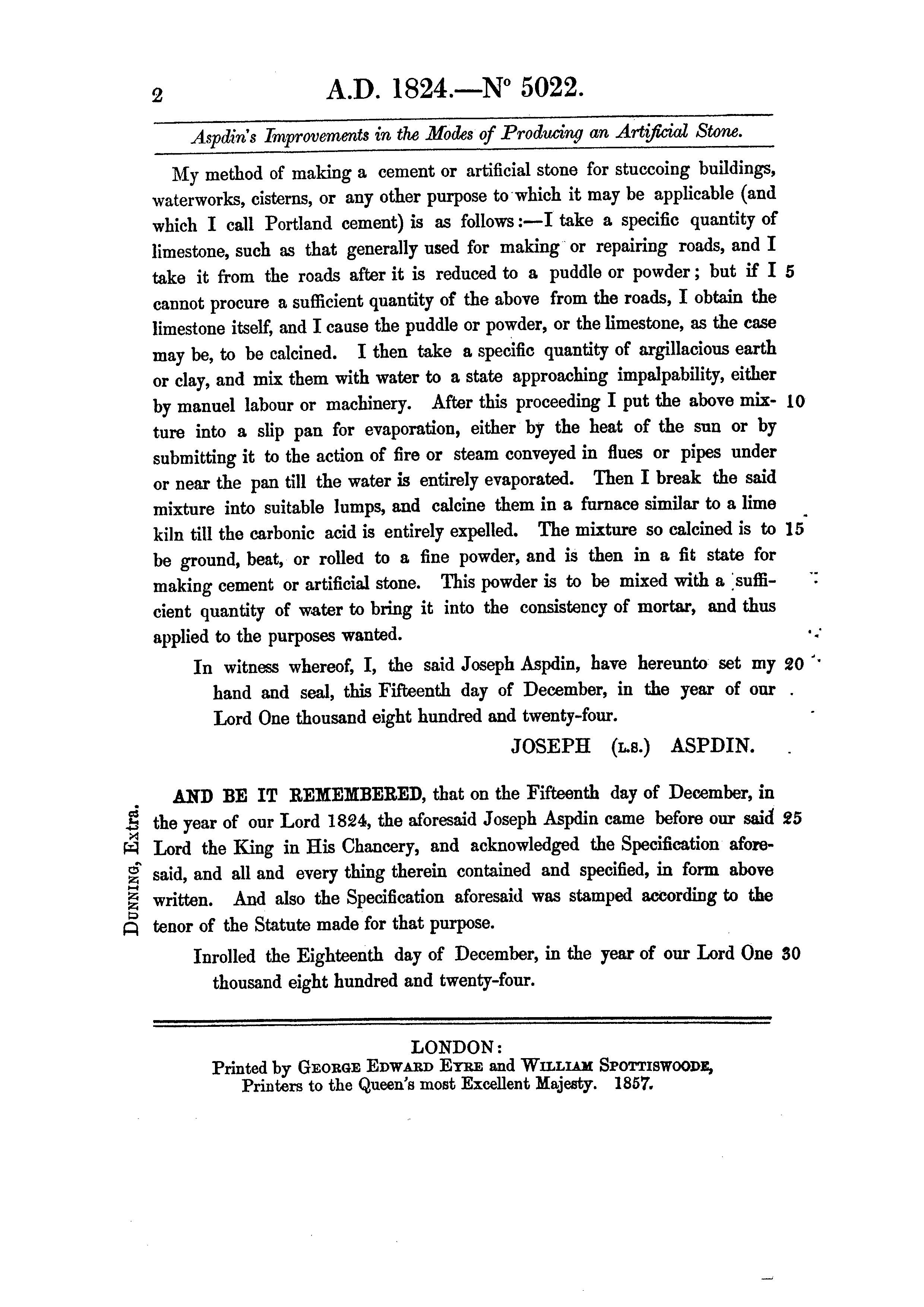 Patent nr.: BP 5022 Patent Title: An Improvement in the Mode of Producing an Artificial Stone (Page 2)